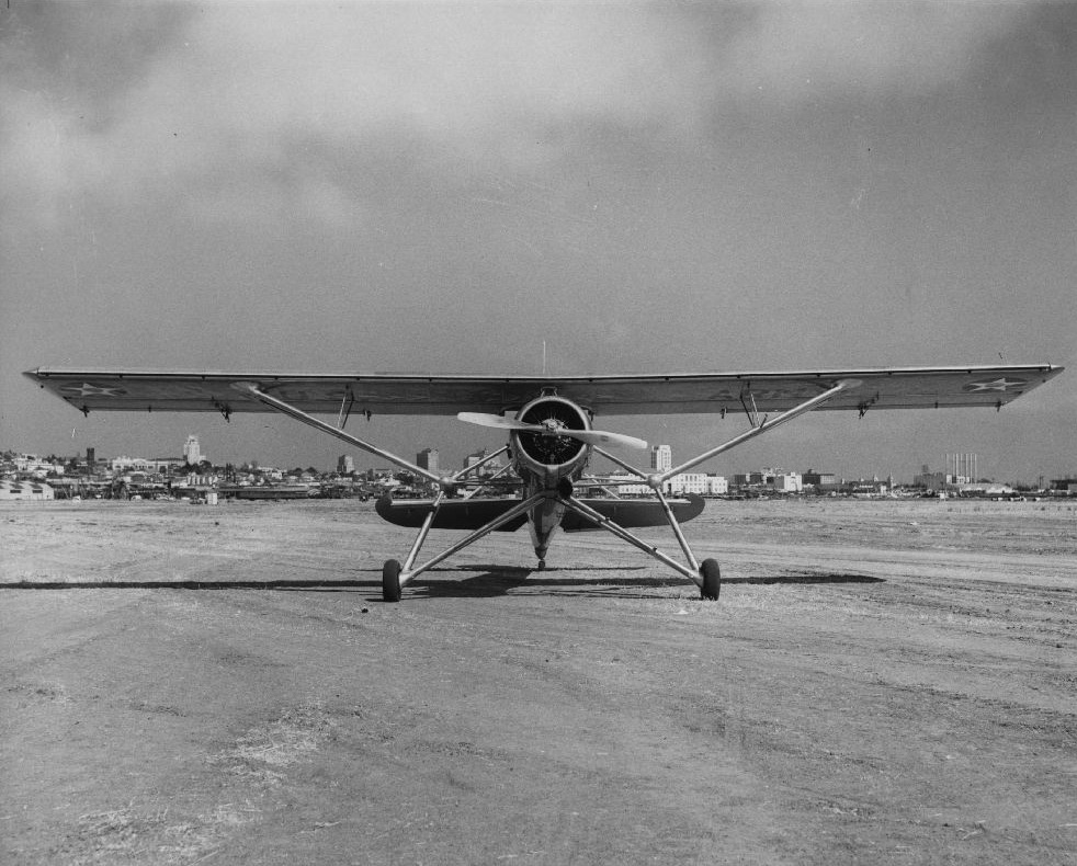 Ryan YO-51 "Dragonfly" observation aircraft on the ground during evaulation by the United States Army Air Corps.